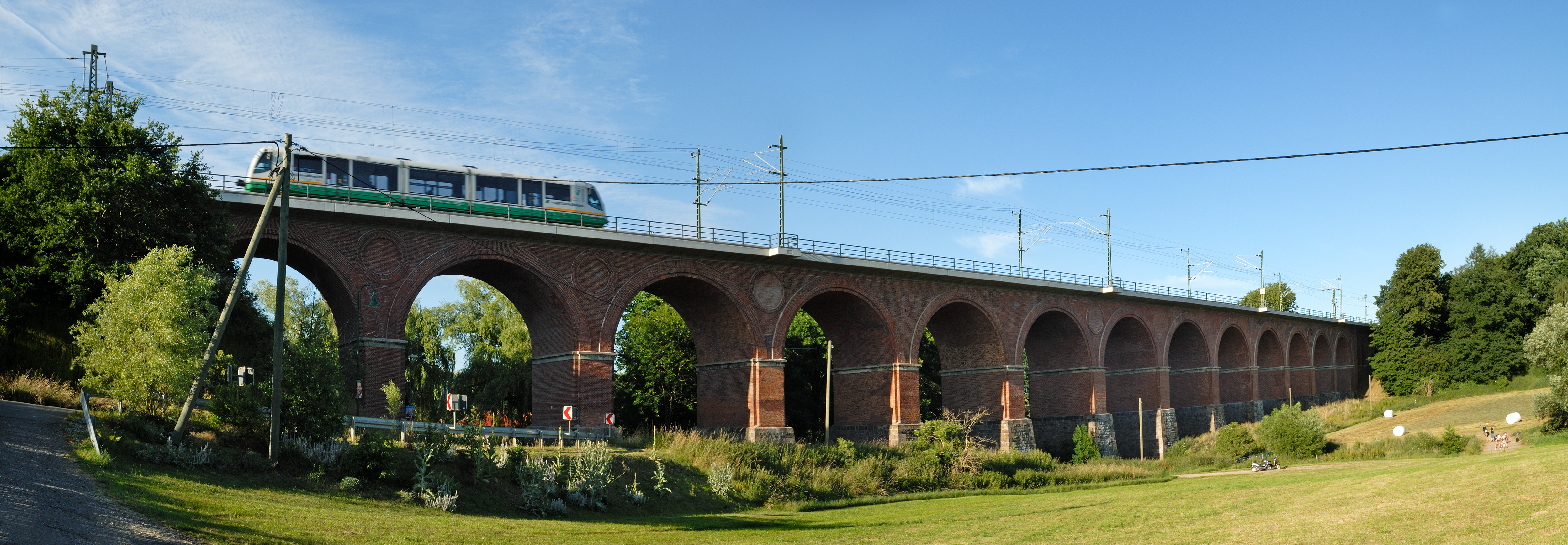 This image shows the Römertalbrücke ("Roman valley bridge") in Werdau, Germany, which straddles the valley with the same name. It is a two segment panoramic image.